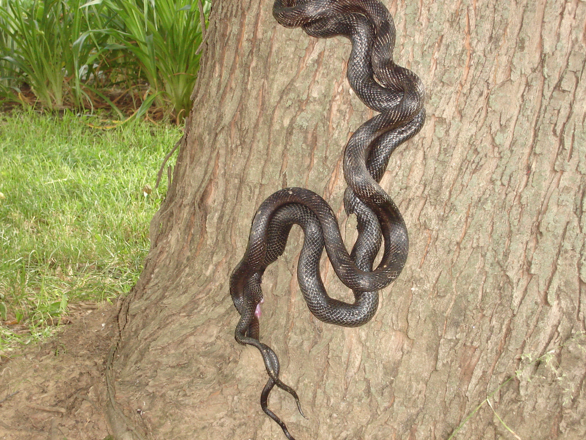 Close up of Black Snakes mating.